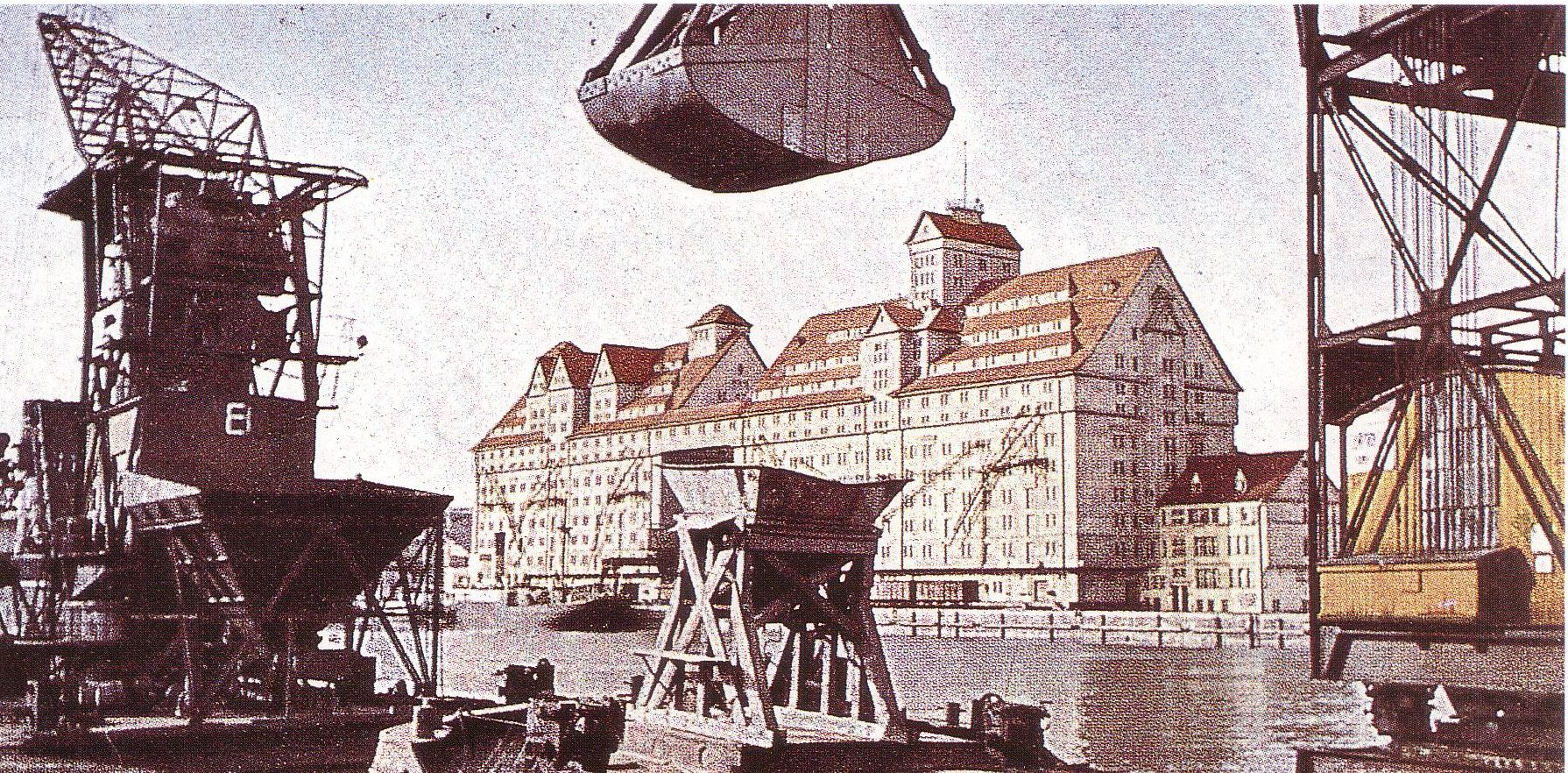 Store blocks in the industry harbor of Königsberg